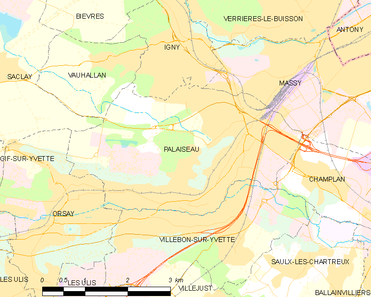 Map of French municipality Palaiseau